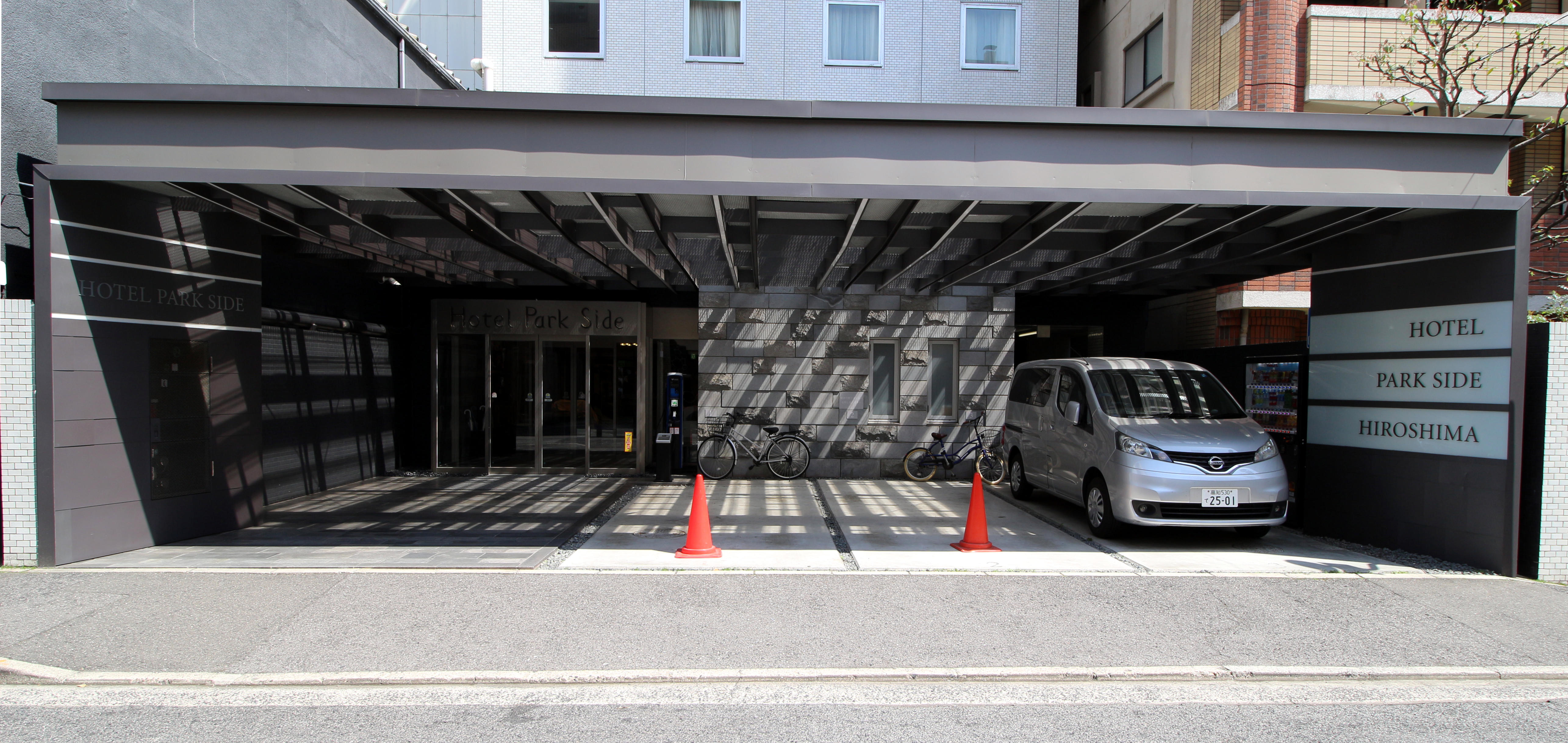 Entrance of Hotel Park Side in Hiroshima, Japan.